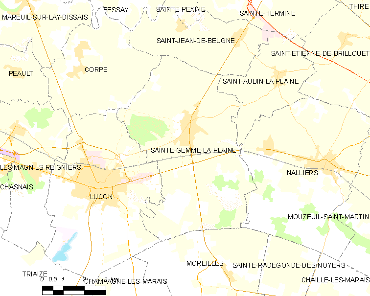 Map of French municipality Sainte-Gemme-la-Plaine